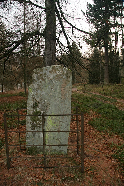 Pictish symbol stone, Hunters Hill ; one can see a snake symbol